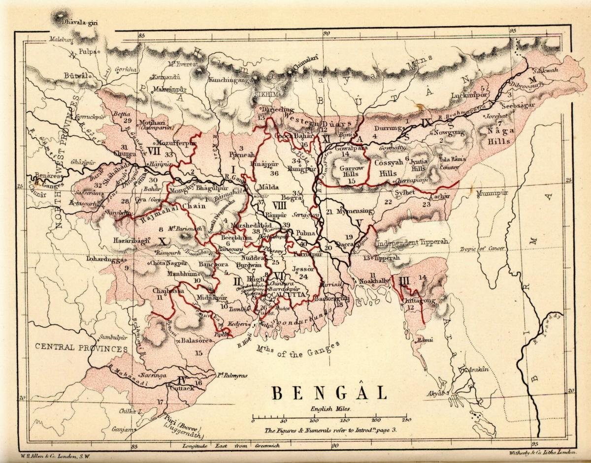 Map of "Bengal" from Pope, G. U. (1880) Text-book of Indian History: Geographical Notes, Genealogical Tables, Examination Questions, London: W. H. Allen & Co. Pp. vii, 574, 16 maps. Scanned from personal copy and uploaded by Fowler&fowler